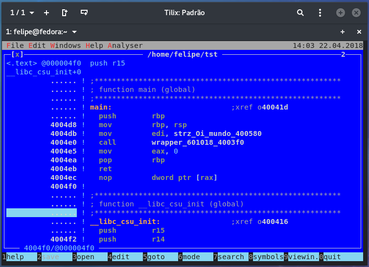 HT Editor in viewer mode of the executable's image.